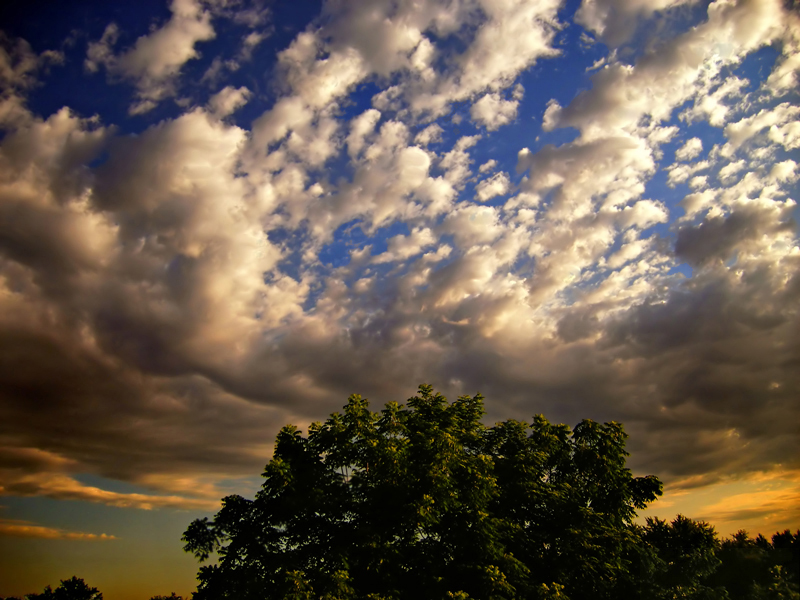 Early-morning sky.